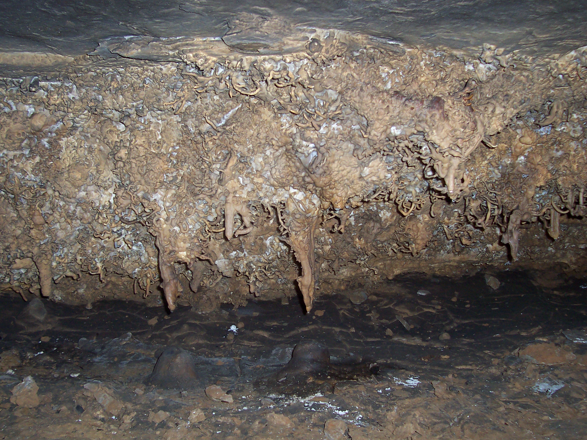 Rare Helictite formations in Wyandotte Cave, Indiana